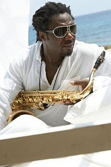 Inusa Dawuda on location in Ibiza, 2007. Other information This file is also freely available on the Russian Wikipedia under the article, "Inusa Dawuda"